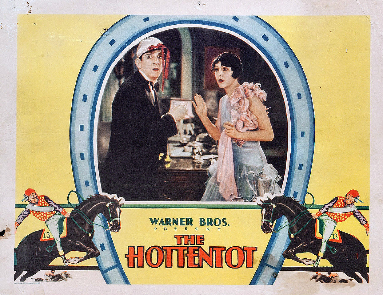 Lobby card for the American comedy film The Hottentot (1929). The item has no copyright markings on it as can be seen in the links above. At lower left is Country of Origin USA. There are two cards shown in the link. This is the top one. Both have Country of Origin USA at lower left; the mark is not as clear on the top card as it is on the bottom one. The bottom card has more damage to it, so it's provided for reference re: easier to read mark.